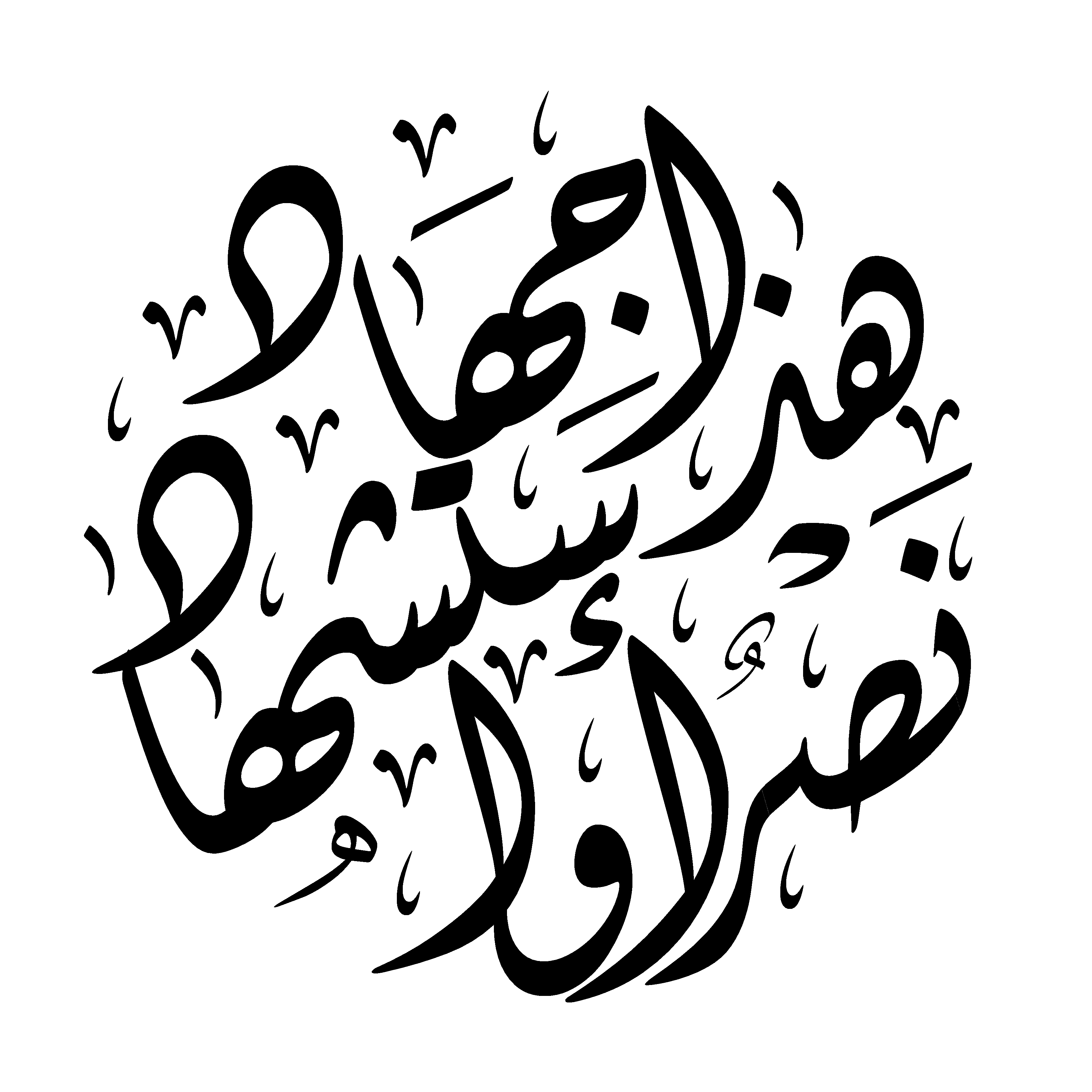 the Izz ad-Din al-Qassam's slogan wrote in Arabic .